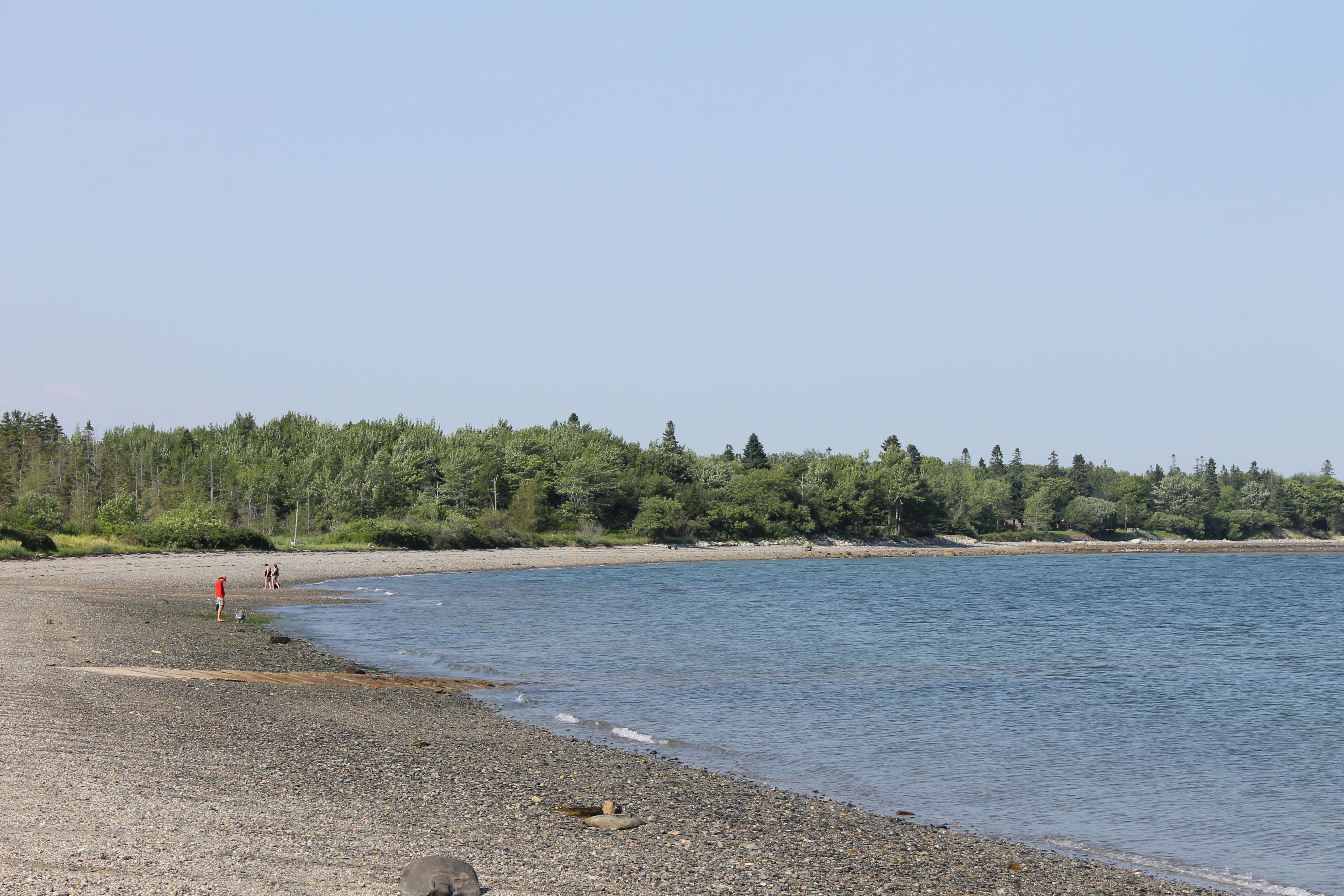 I took photo of Lamoine Beach Park in Lamoine, ME, with Canon camera.